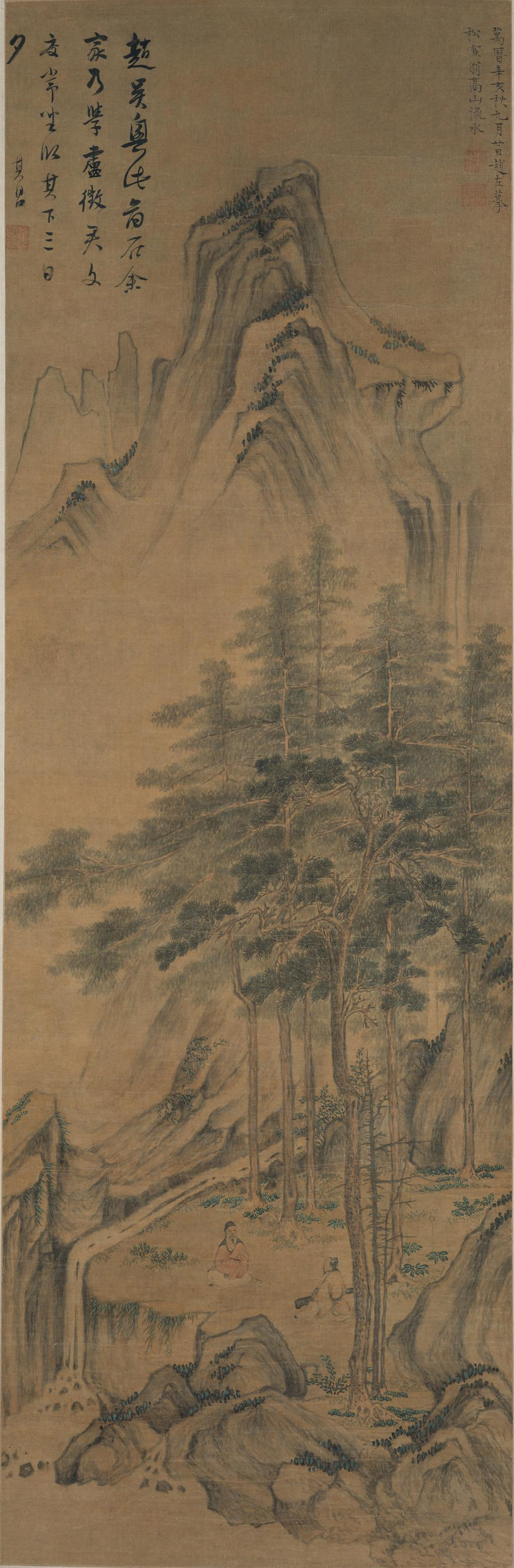 Landscape of quick water from high mountain, hanging scroll